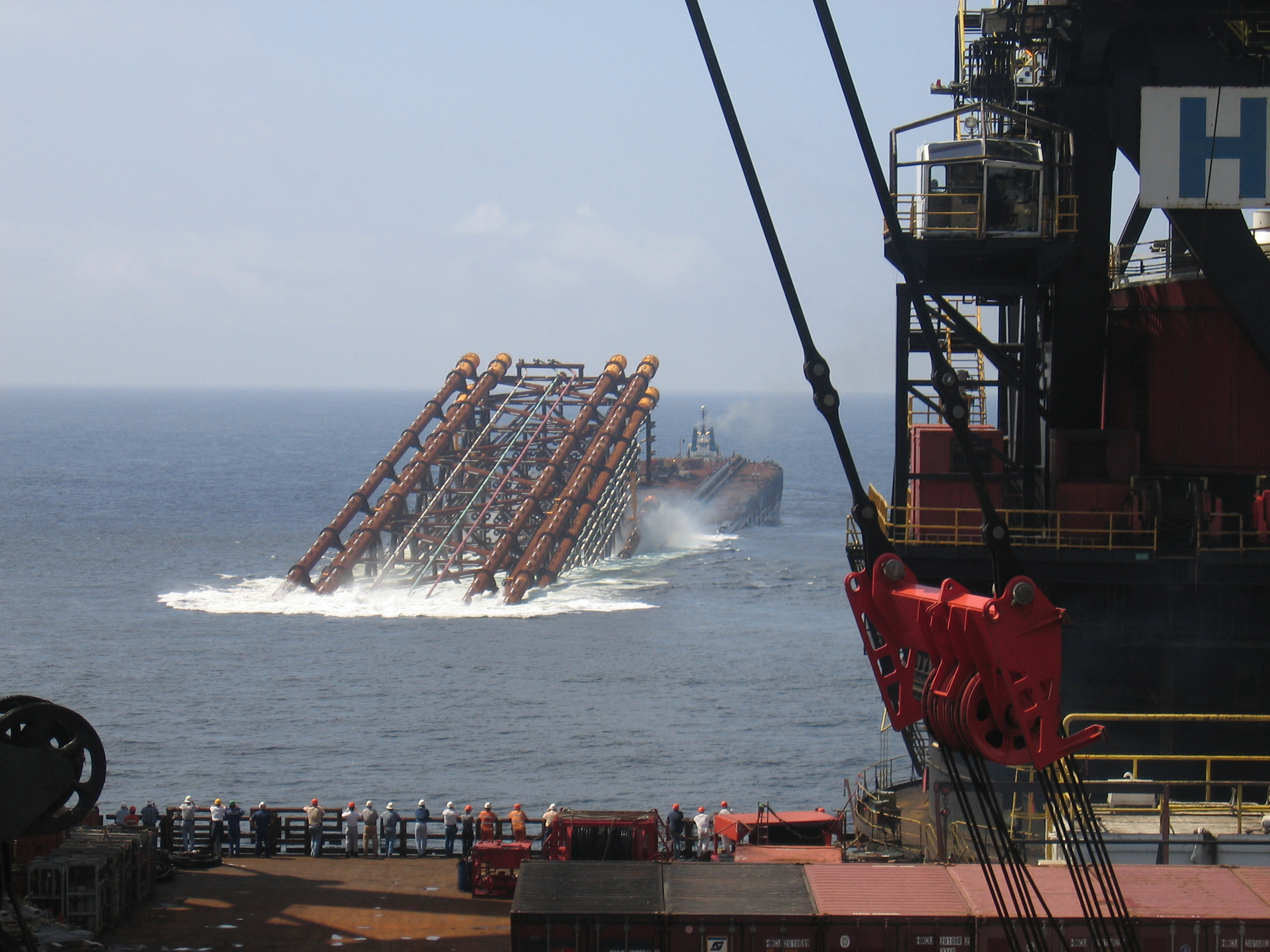 Benguela Belize tower base during launch from H-851, seen from SSCV Thialf, 15-4-2005.